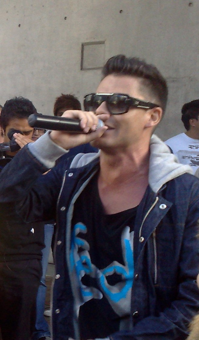 Photo of New Zealand singer Dane Rumble during his free concert at the base of the Sky Tower in Auckland, New Zealand on March 26th, 2010